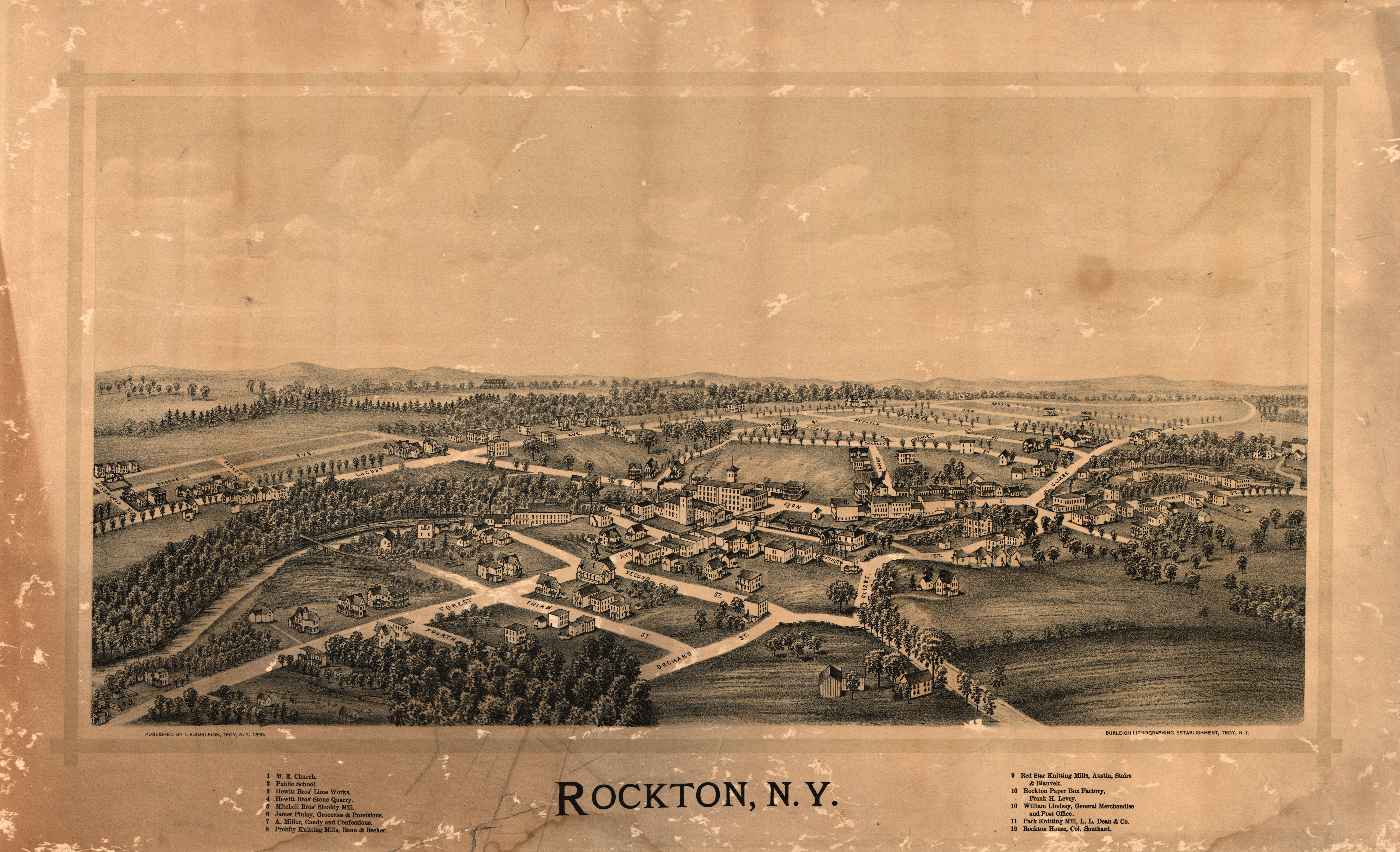 Aerial view to horizon. Imperfect: Color strongly faded, paper darkened, slightly fold-lined, torn at edges, taped on verso. Includes index to points of interest. Available also through the Library of Congress Web site as a raster image. PM3 Acquisitions control no.: 2004-67